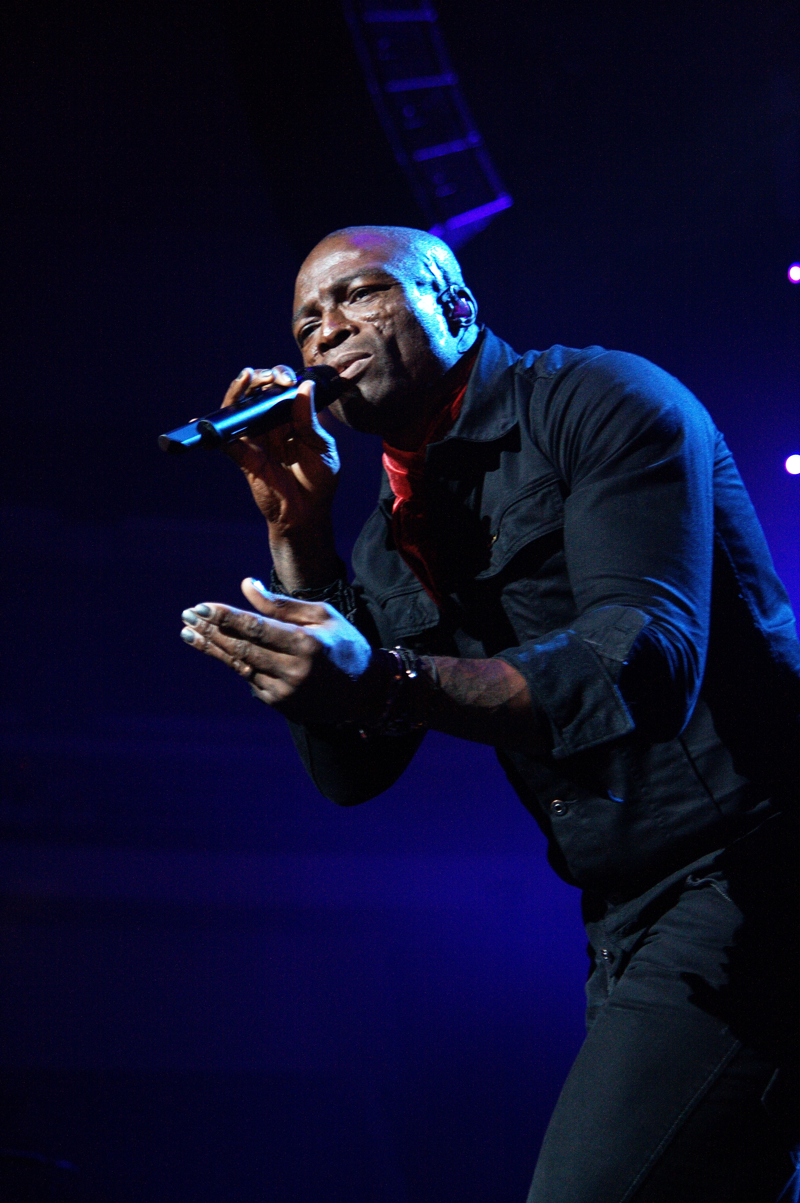 The Musician Seal at the "Night of the Proms" 2011 in Hannover.